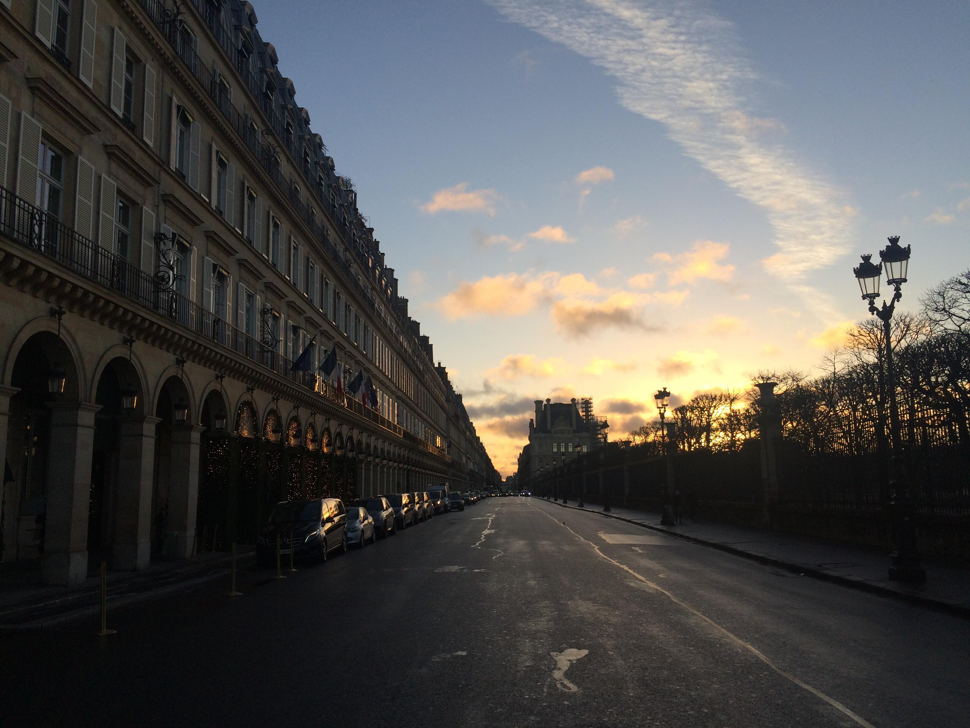 PAI headquarters in Paris, rue de Rivoli